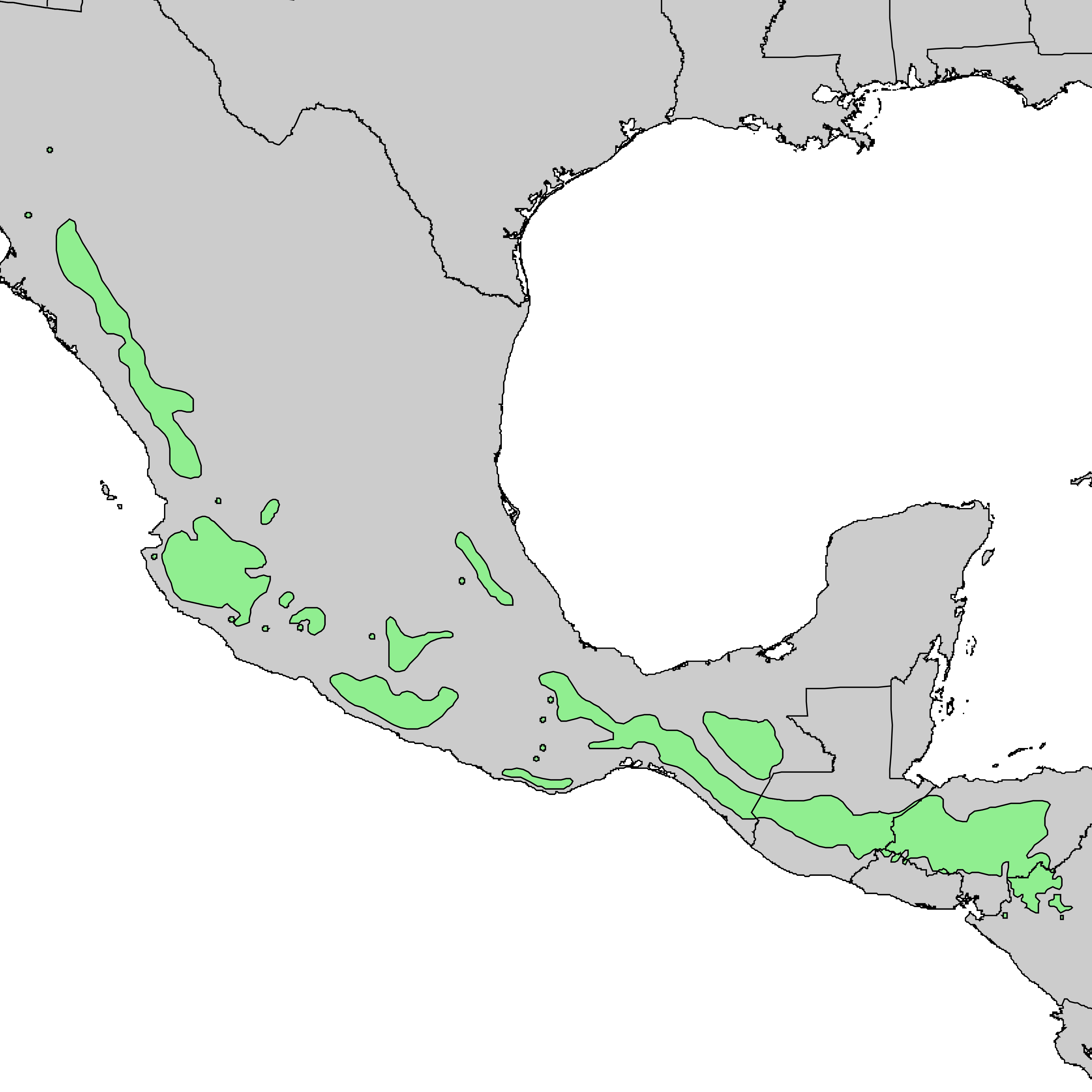 Natural distribution map for Pinus oocarpa